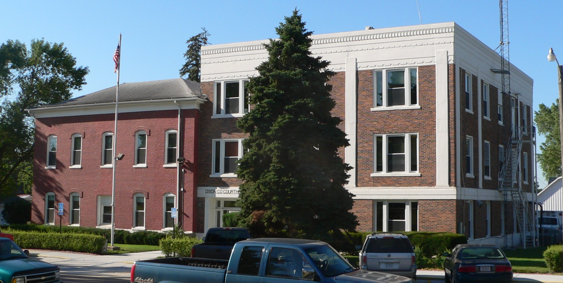 Dixon County Courthouse in Ponca, Nebraska; seen from the northwest. The Italianate portion at left (east) was built ca. 1883; the Art Deco portion at right (west) was built in 1940. The building is listed in the National Register of Historic Places.